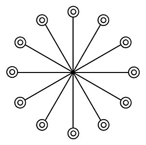 Seal in Book of Jeu